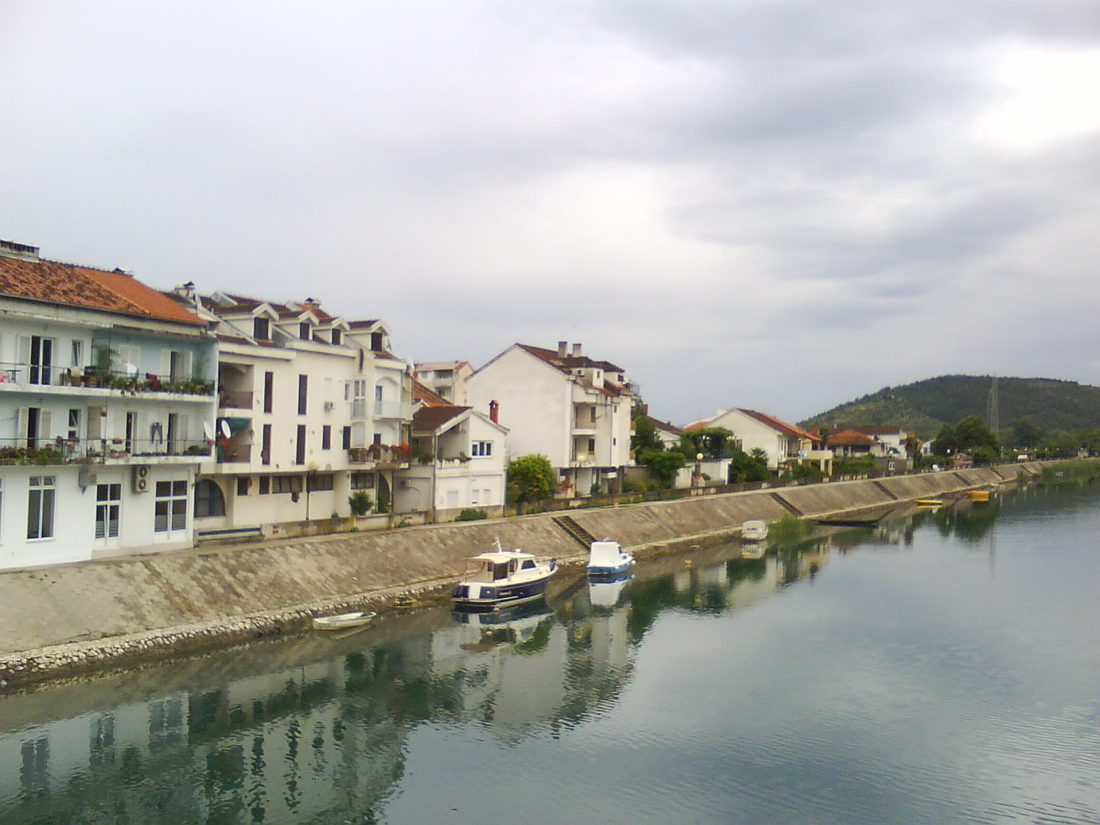 City of Metković